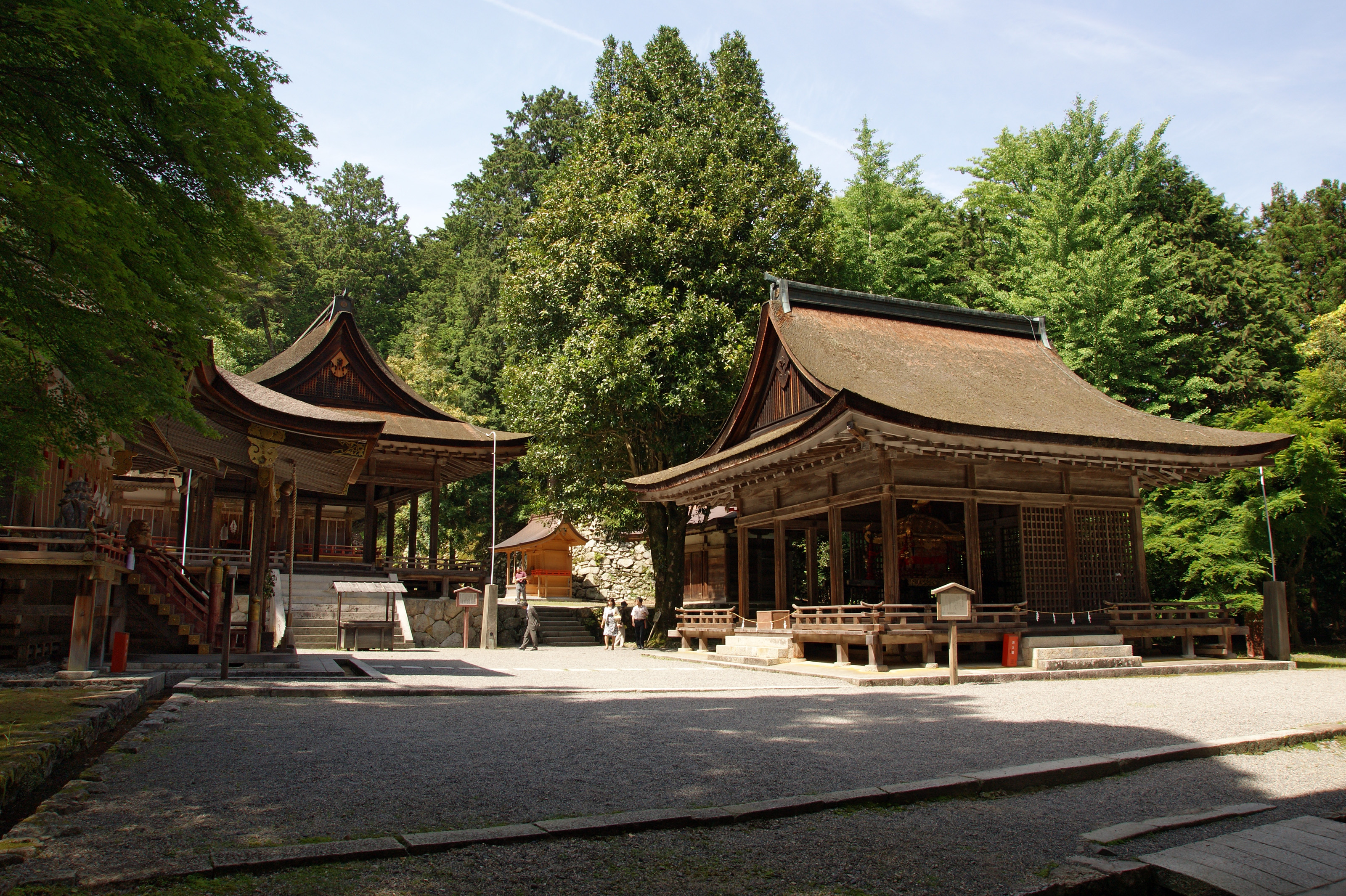 Hiyoshi Taisha in Otsu, Shiga prefecture, Japan